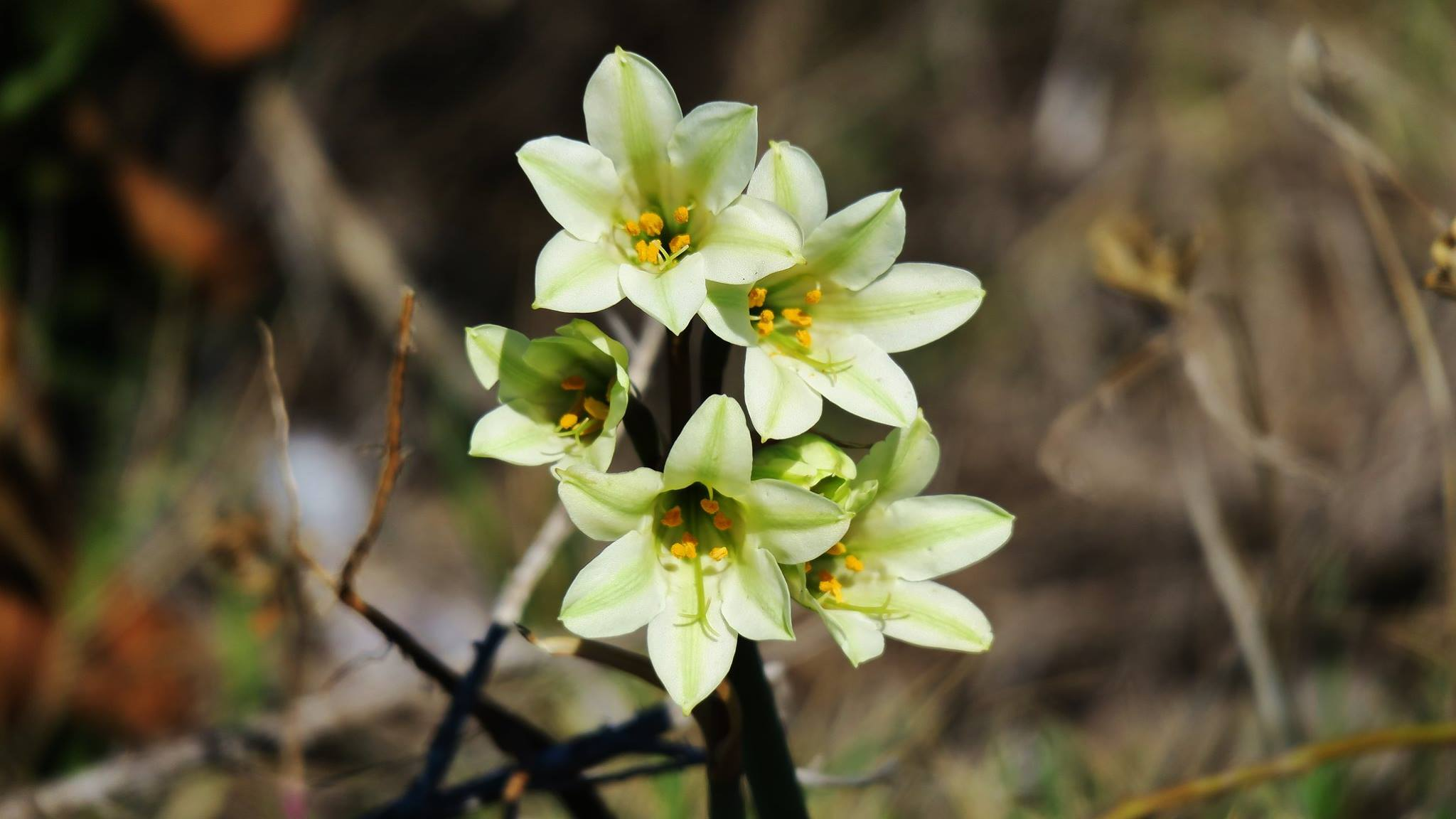 Cyrtanthus loddigesianus (Herb.) R.A.Dyer, Schoenmakerskop, Port Elizabeth, South Africa